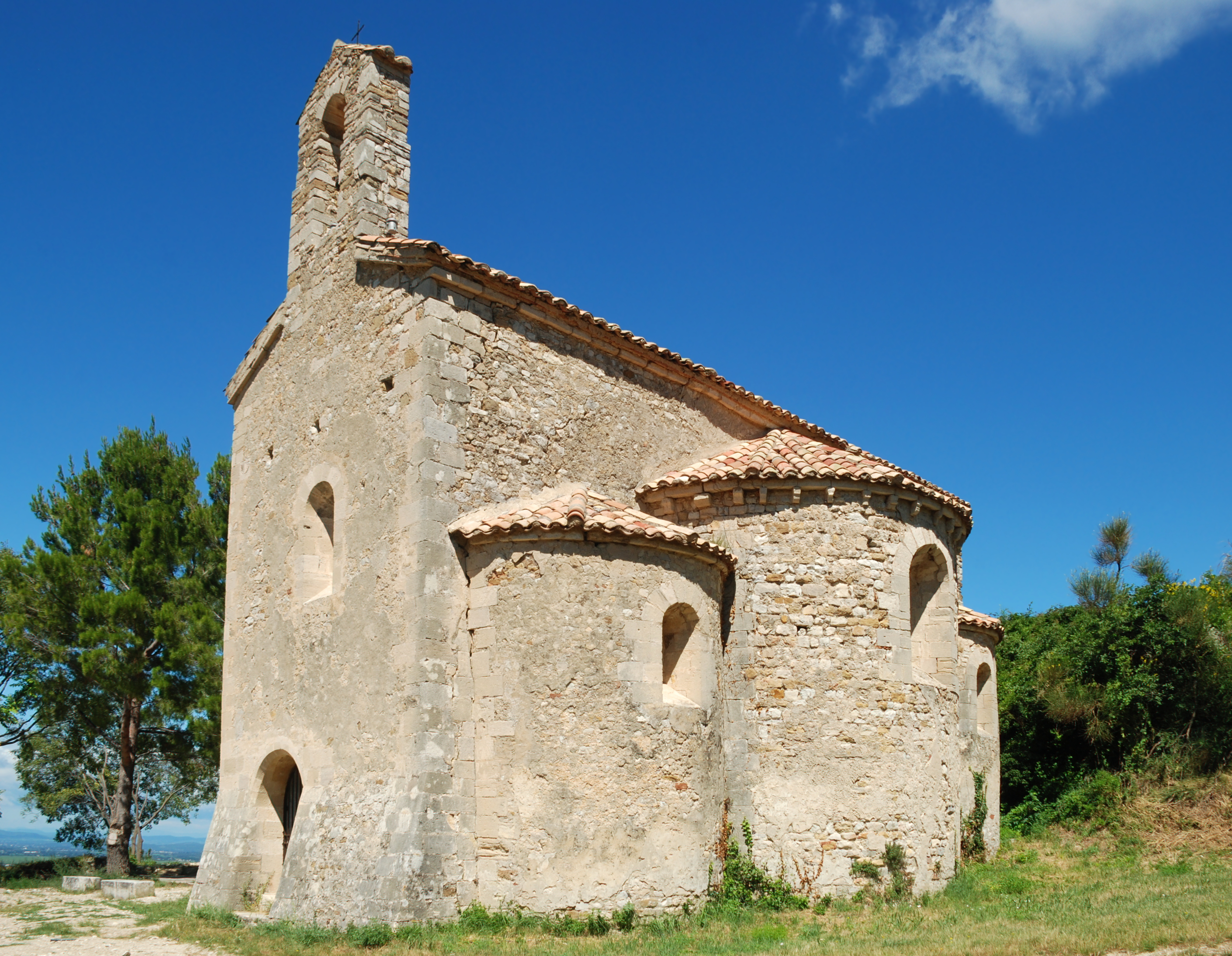 France - Chapelle Saint-Cosme et Saint-Damien de Gigondas